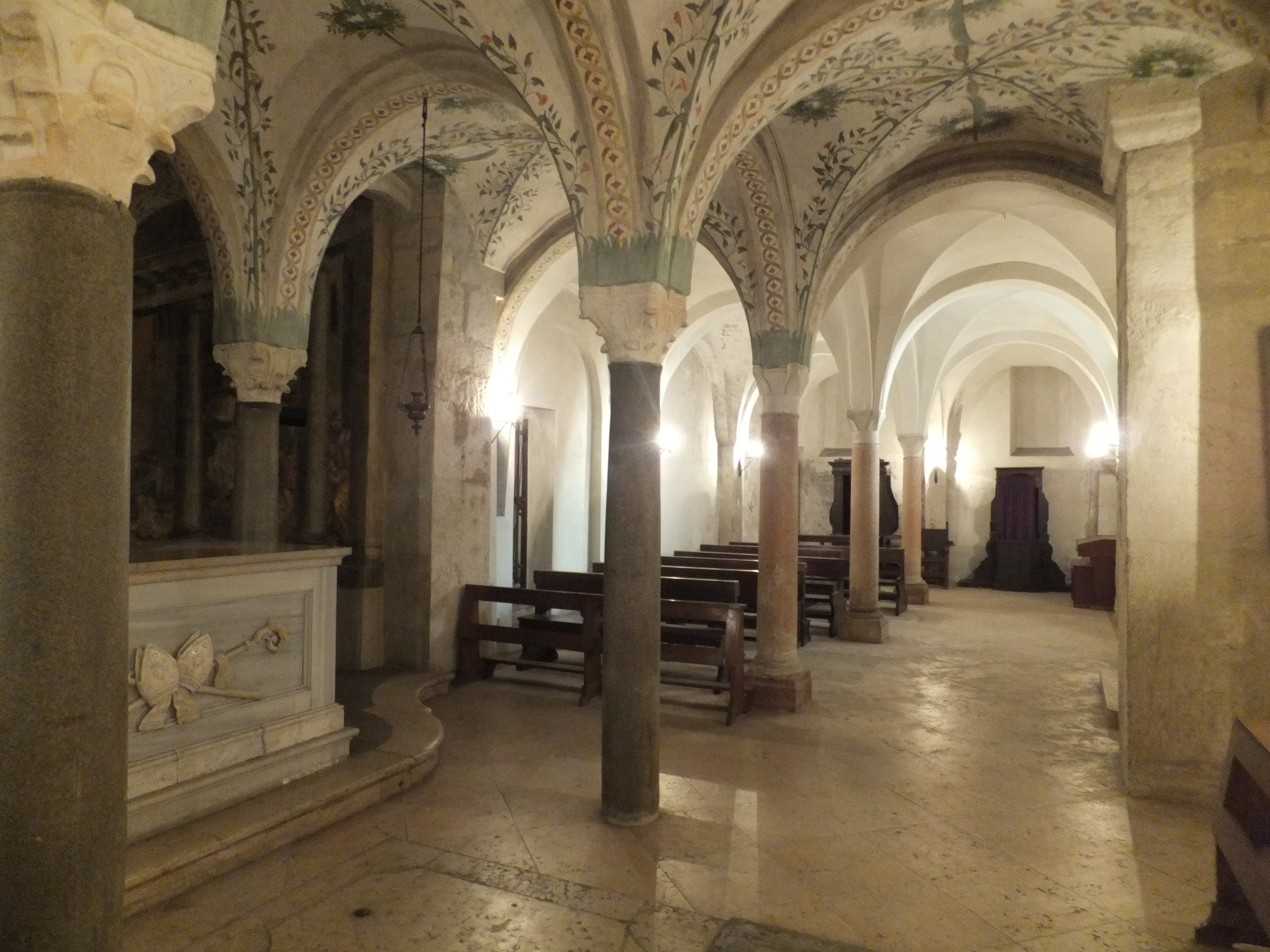 Verona, church of Saint Stephen - Crypt